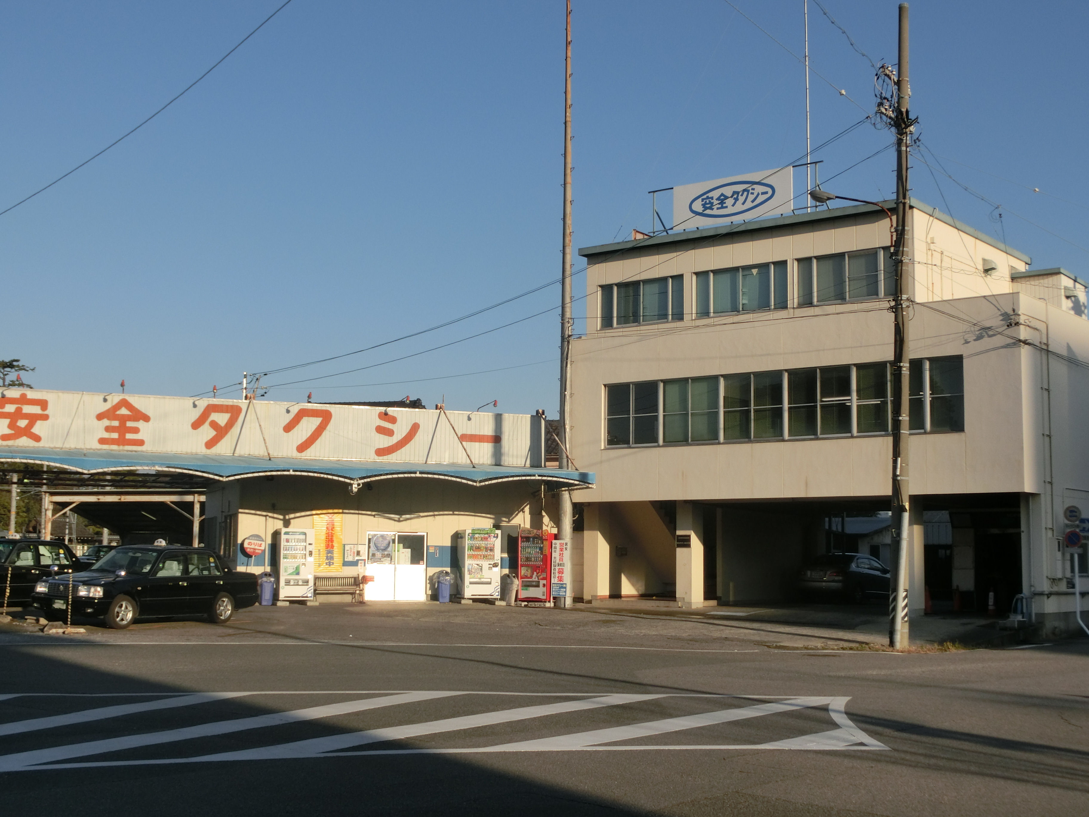 Anzen Taxi Head Office (Handa)